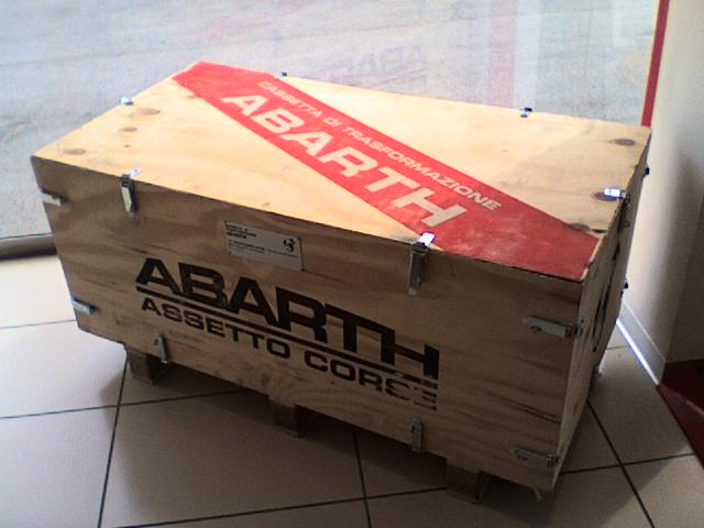 kit "assetto corse" Abarth